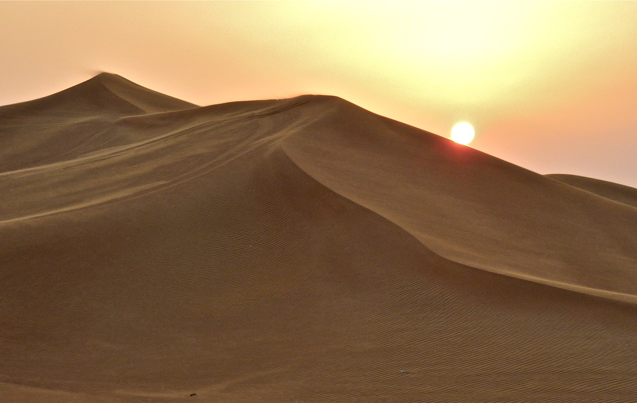 Sunset over desert dune along Al Awir Road, Dubai